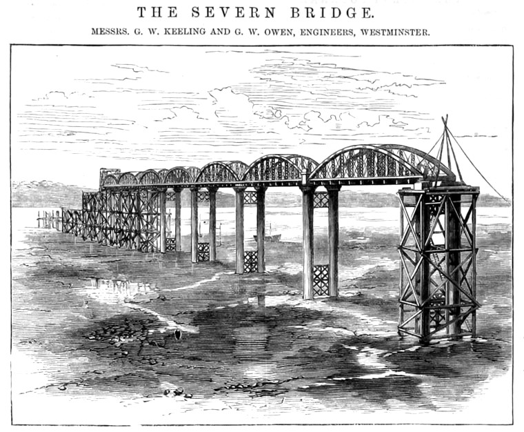 Illustration of the Severn Railway Bridge.